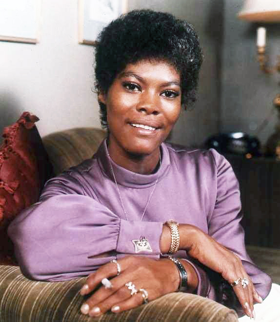 Dionne Warwick portrait. Dionne Warwick in Hotel room London